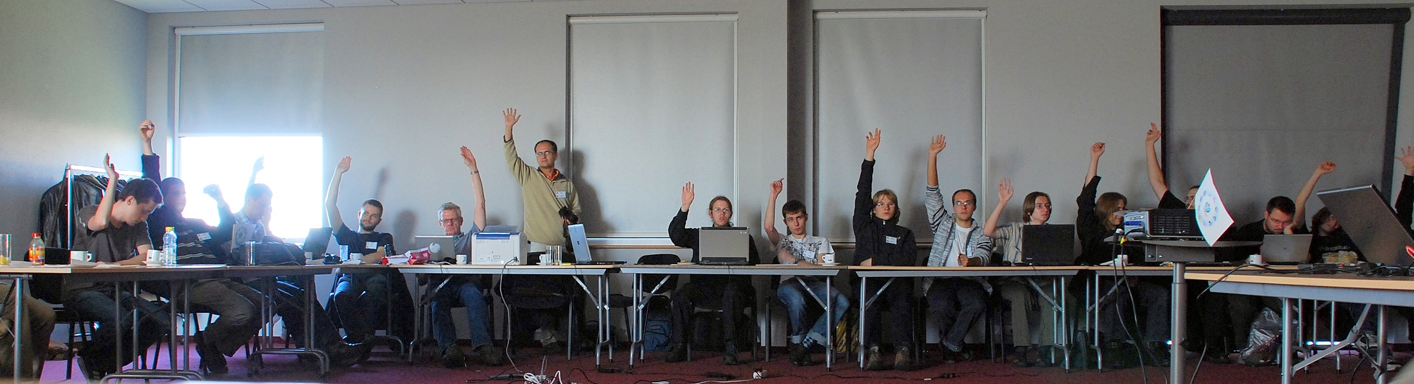 GDJ meeting in Poznań, Poland